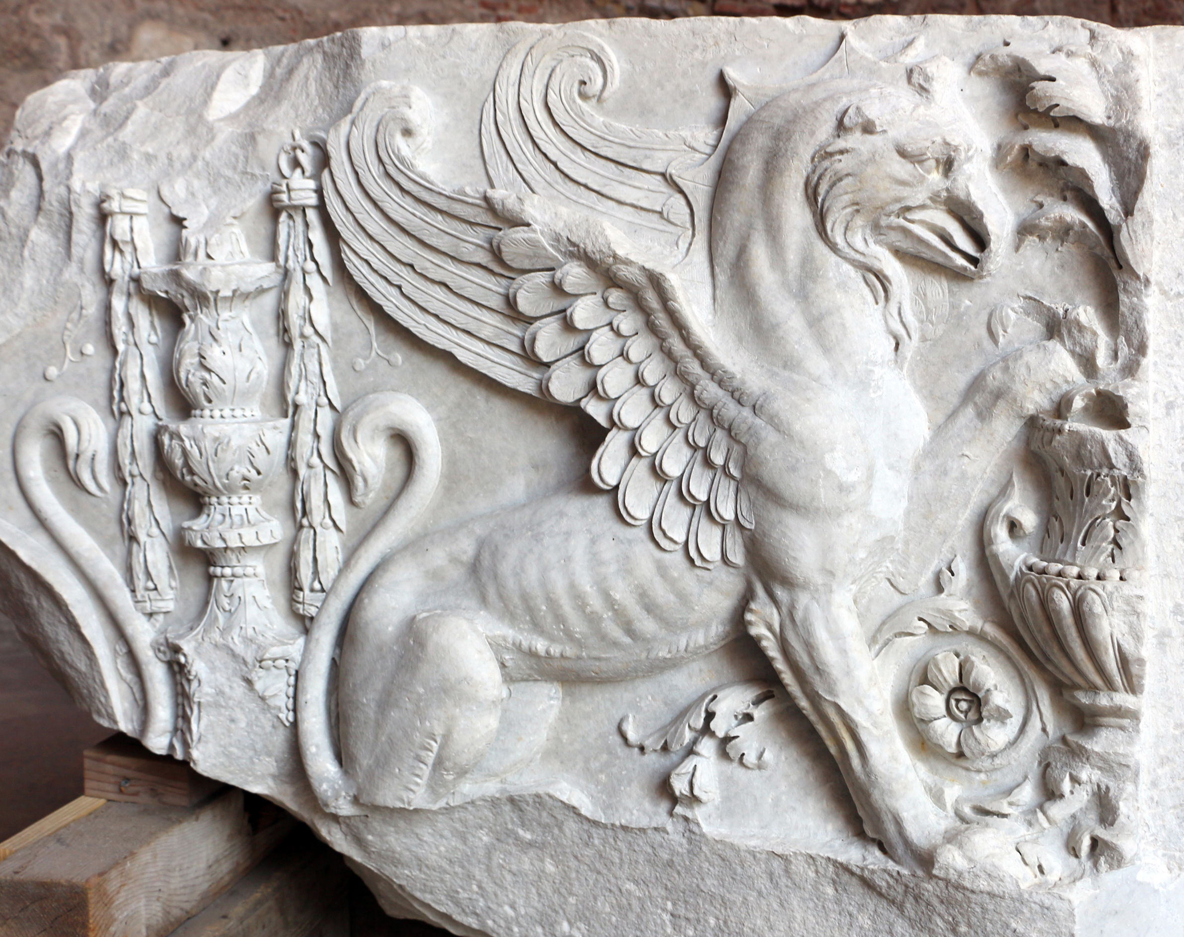 Museo dei Fori Imperiali, Rome